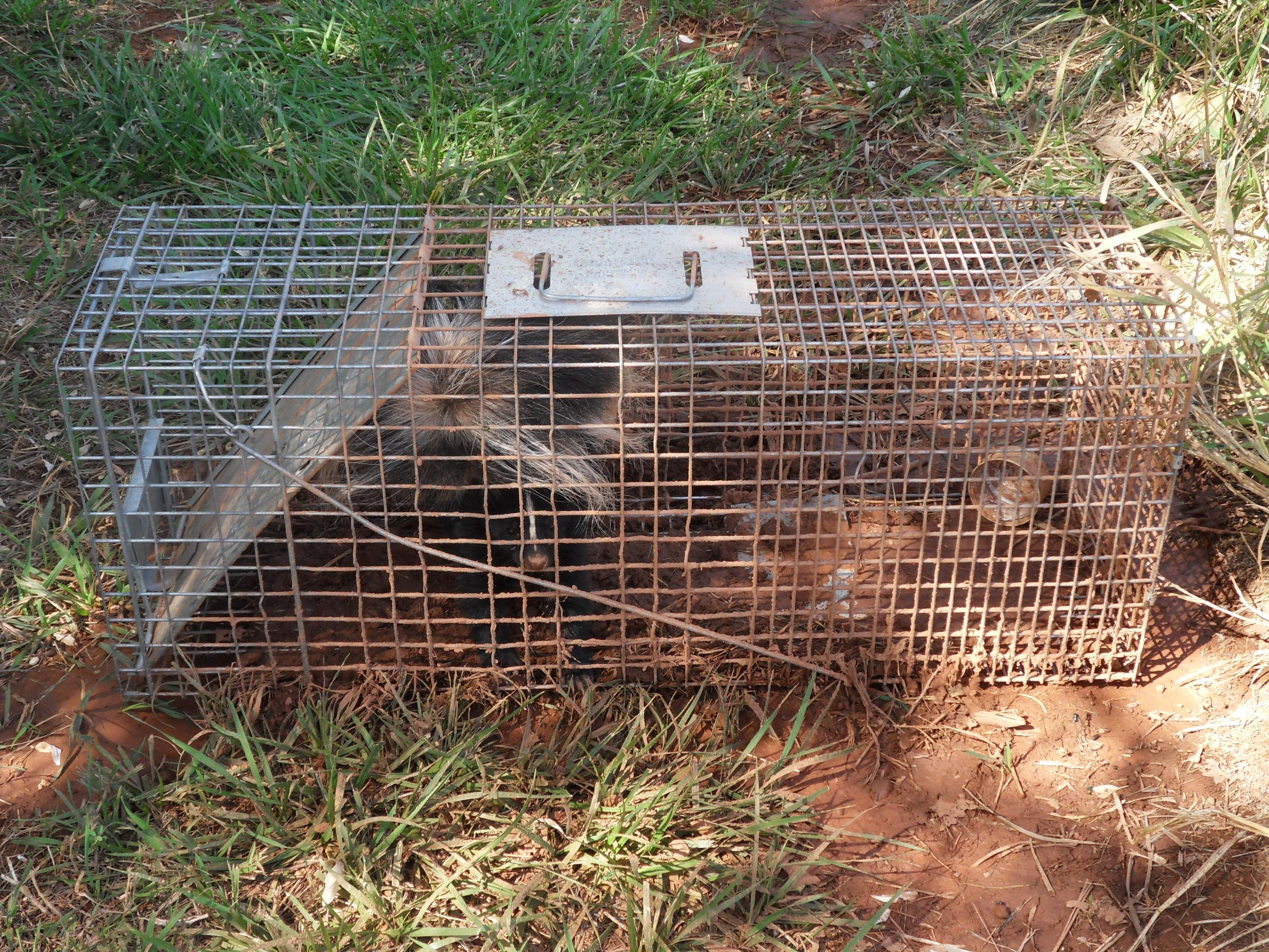 A trapped skunk